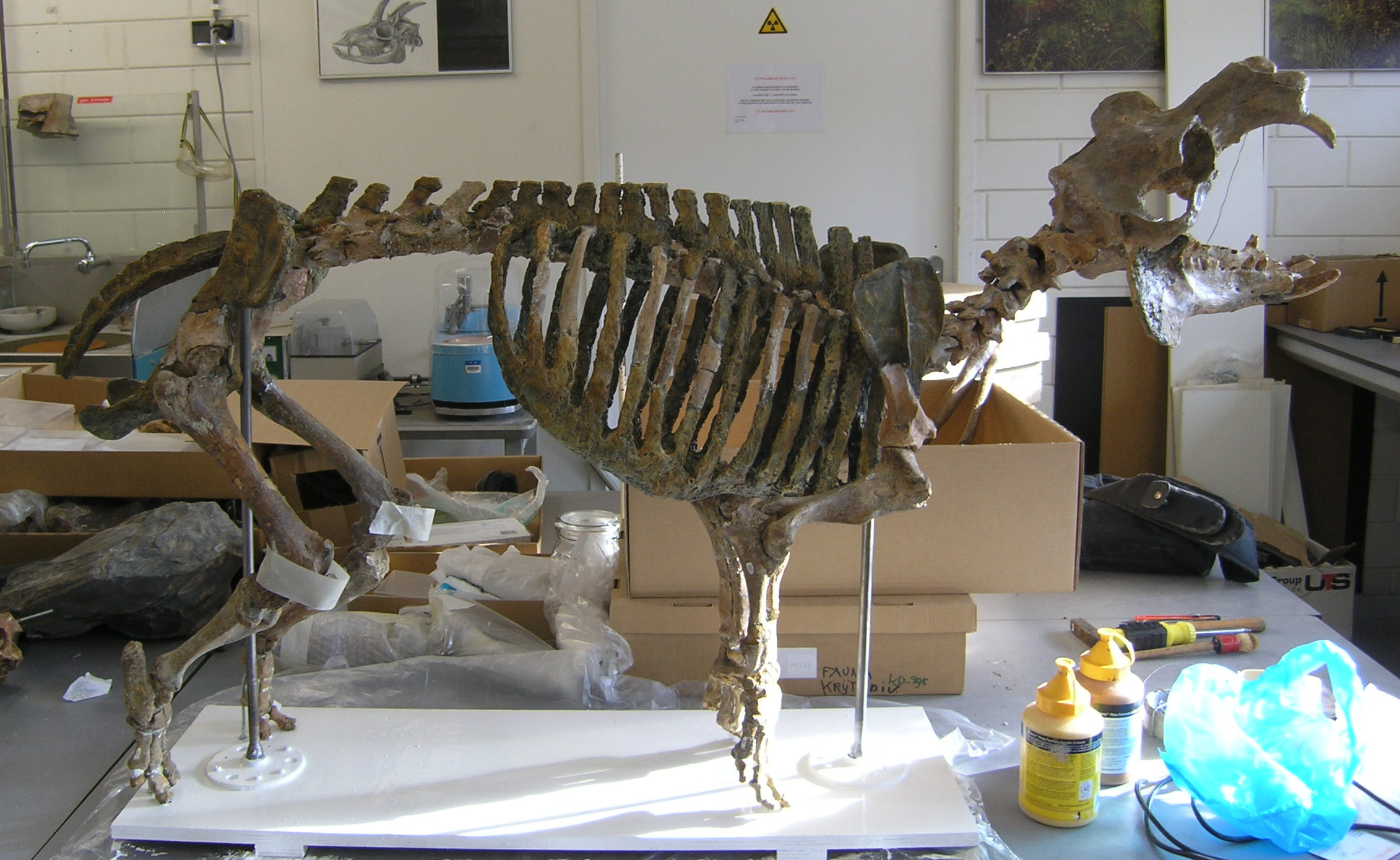 A composite mounted skeleton of Hippopotamus minor. Photographer: George Lyras